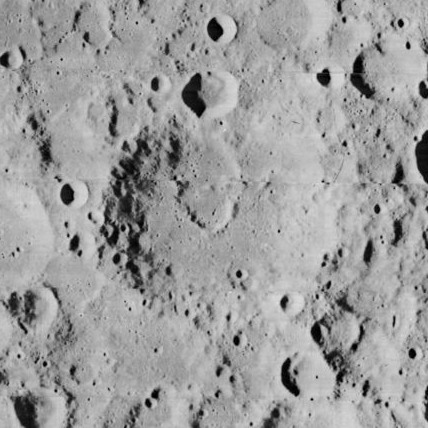 Wyld, on the moon.